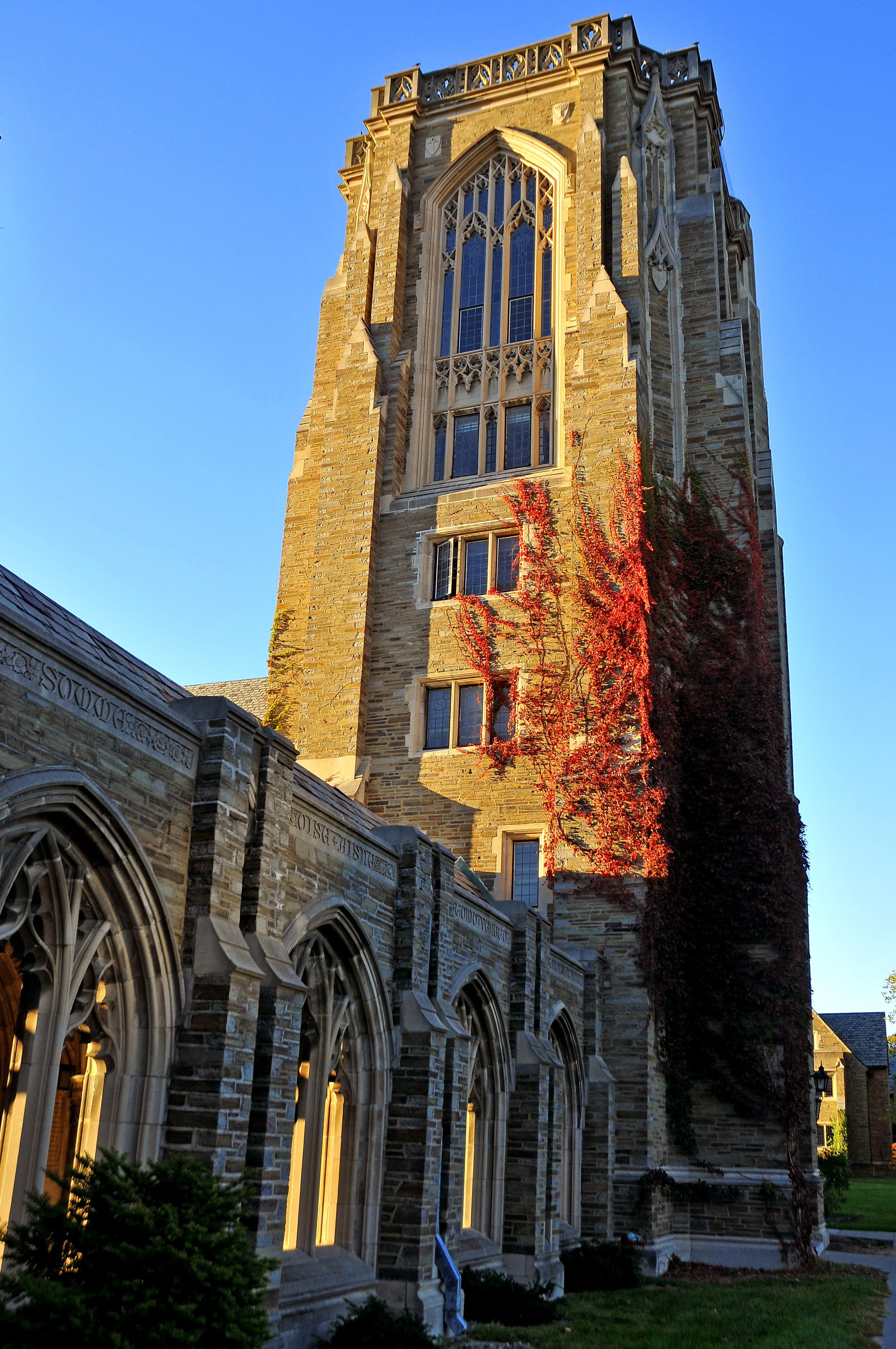 Lyon Hall, Cornell University. Ithaca, New York, United States